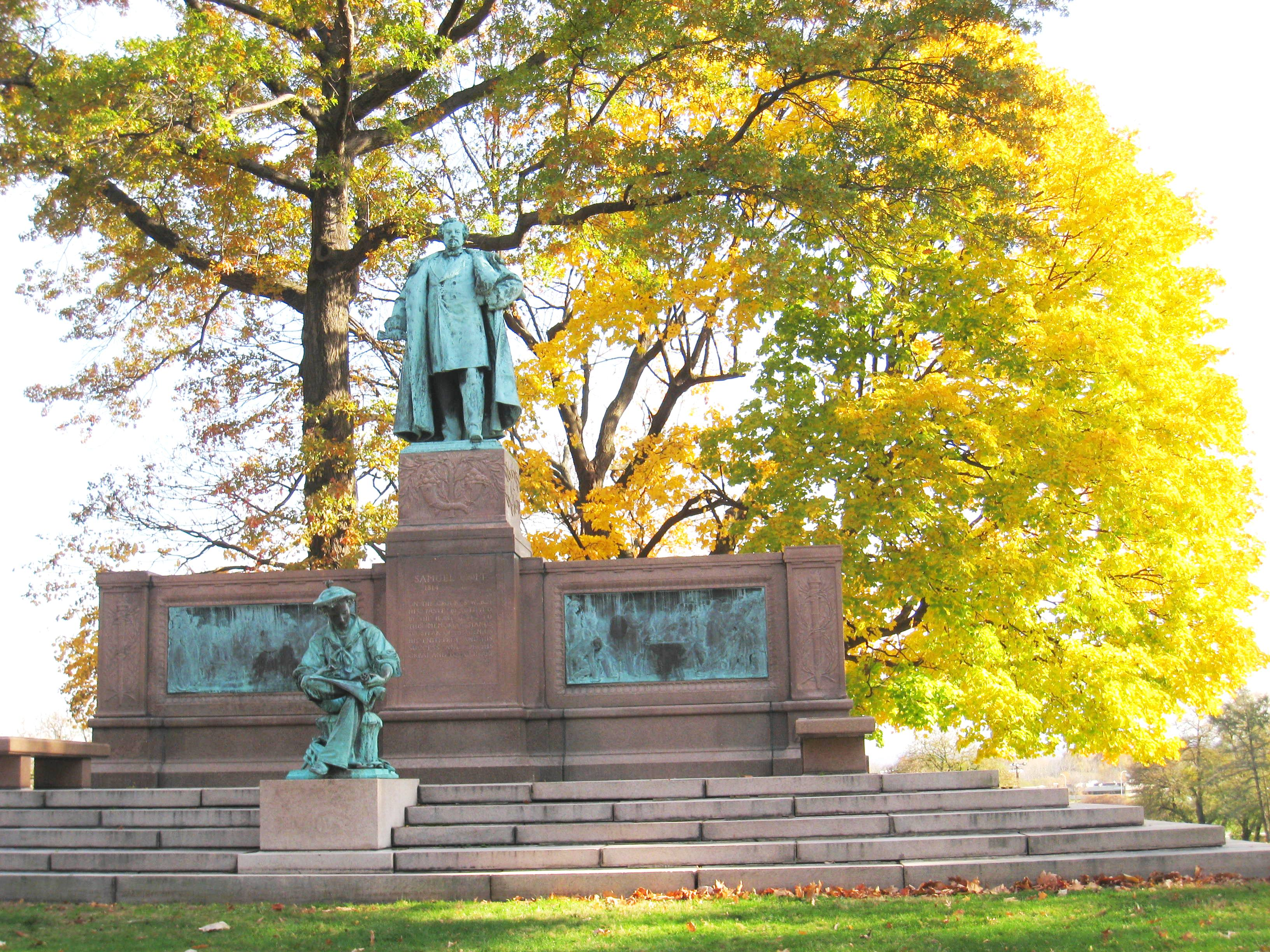 General view - Samuel Colt Memorial, Colt Park, Hartford, Connecticut, USA.